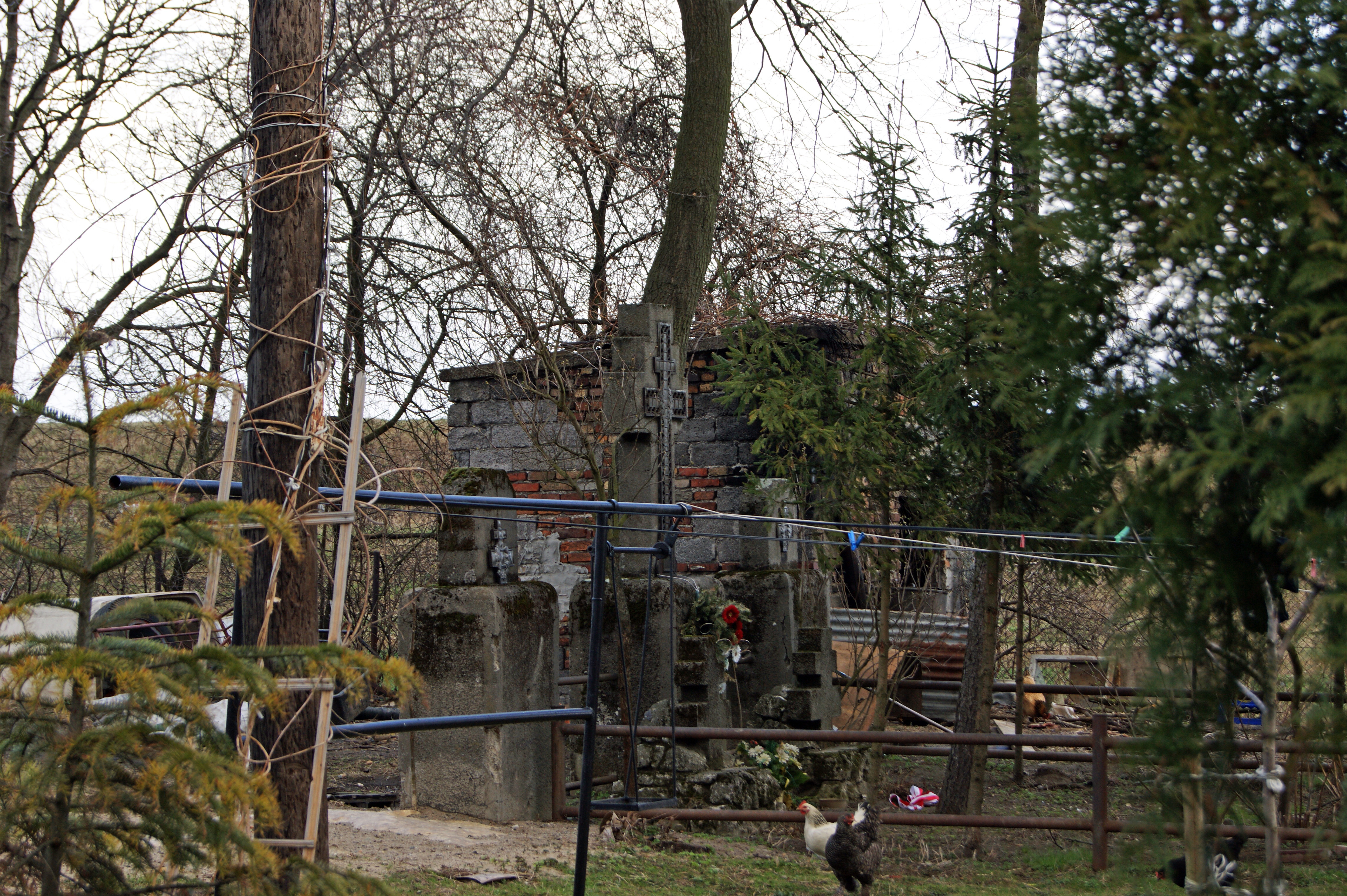 I WW, Military cemetery No. 320 Niedary (monument), Poland